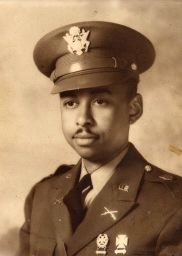 Lt. Col. Lemuel Penn, a black Army Reserve officer from Washington, D.C., was fatally shot by Ku Klux Klan members as he and two other black officers were driving on Georgia Highway 172 near the Broad River bridge.